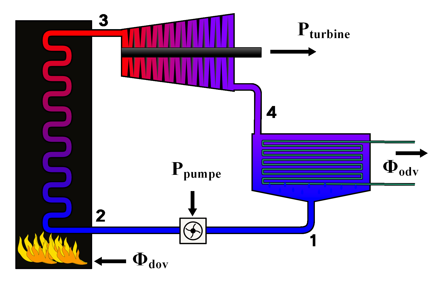 Diagram showing the basic layout of a Rankine cycle; Fluid is pumped to high pressure going from state 1 to 2. Heat is added in the boiler by the burning of fuel (although heat can be added by any method) boiling the fluid to state 3. The vapour expands through the turbine dropping significantly in pressure and temperature to state 4. Finally the vapour is condensed back to a liquid and fed back in the pump.